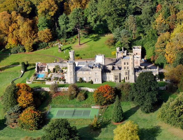 Maesllwch Castle Near Glasbury An aerial view of Maesllwch Castle. This Castle is set in glorious parkland enjoying a commanding position overlooking the beautiful Wye Valley near Glasbury.